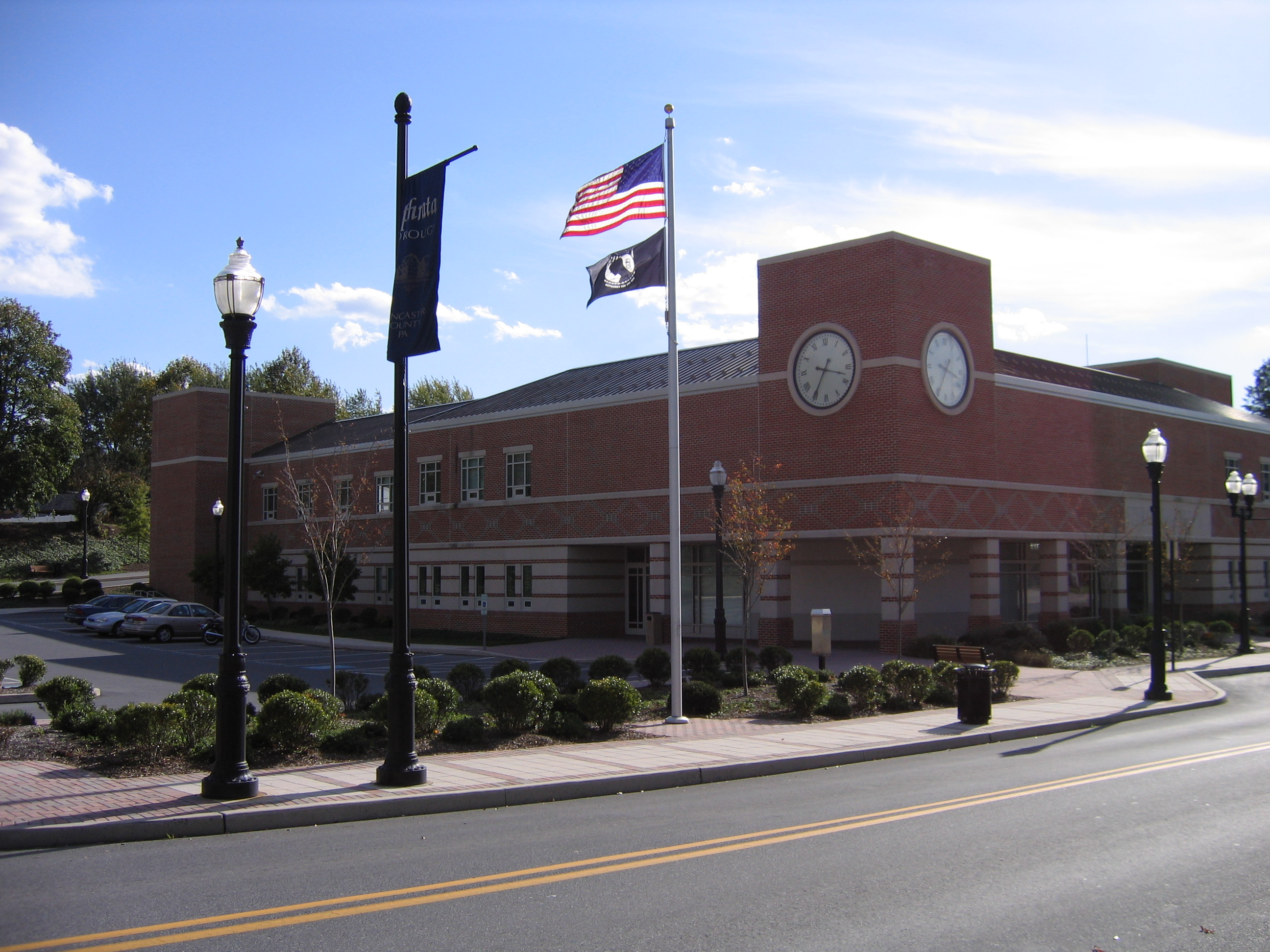 The Ephrata Borough Hall, located along State Street (former SR 272), Ephrata, Pennsylvania